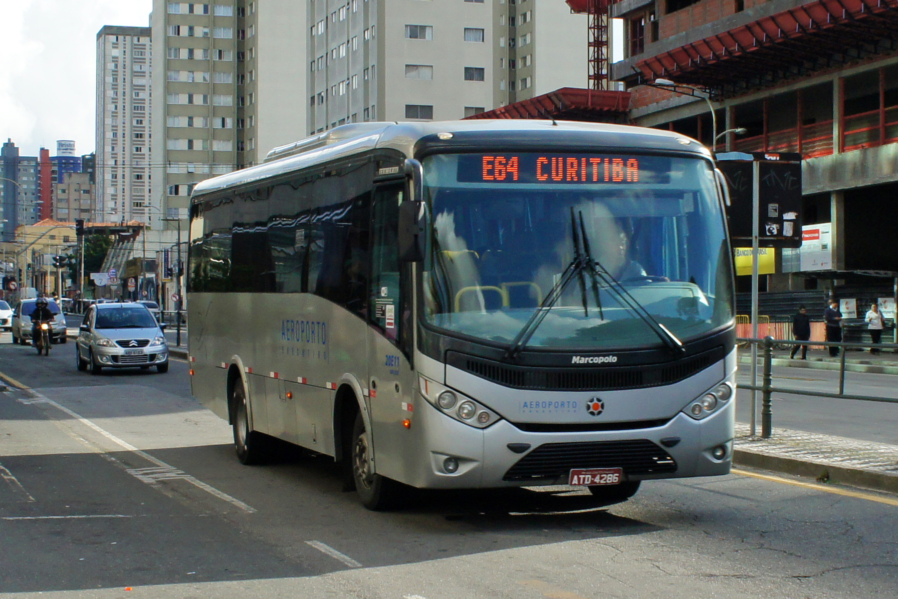 Executive Airport Bus (CWB), at downtown Curitiba, Brazil